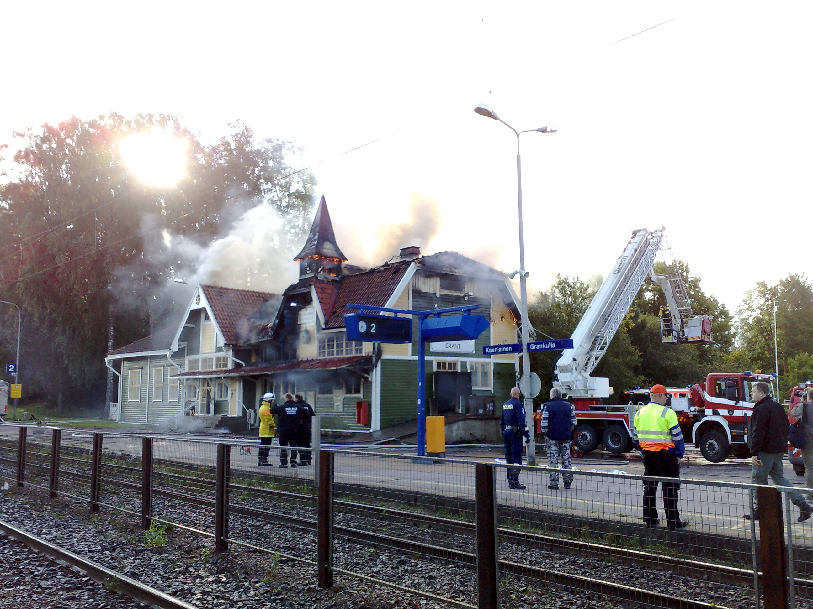 Kauniainen railway station on fire